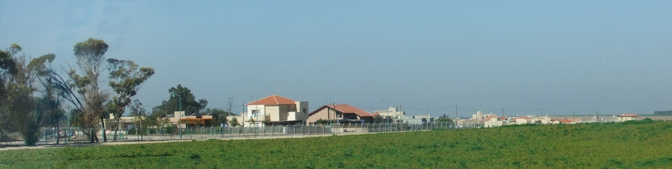 Beit Kama from the east